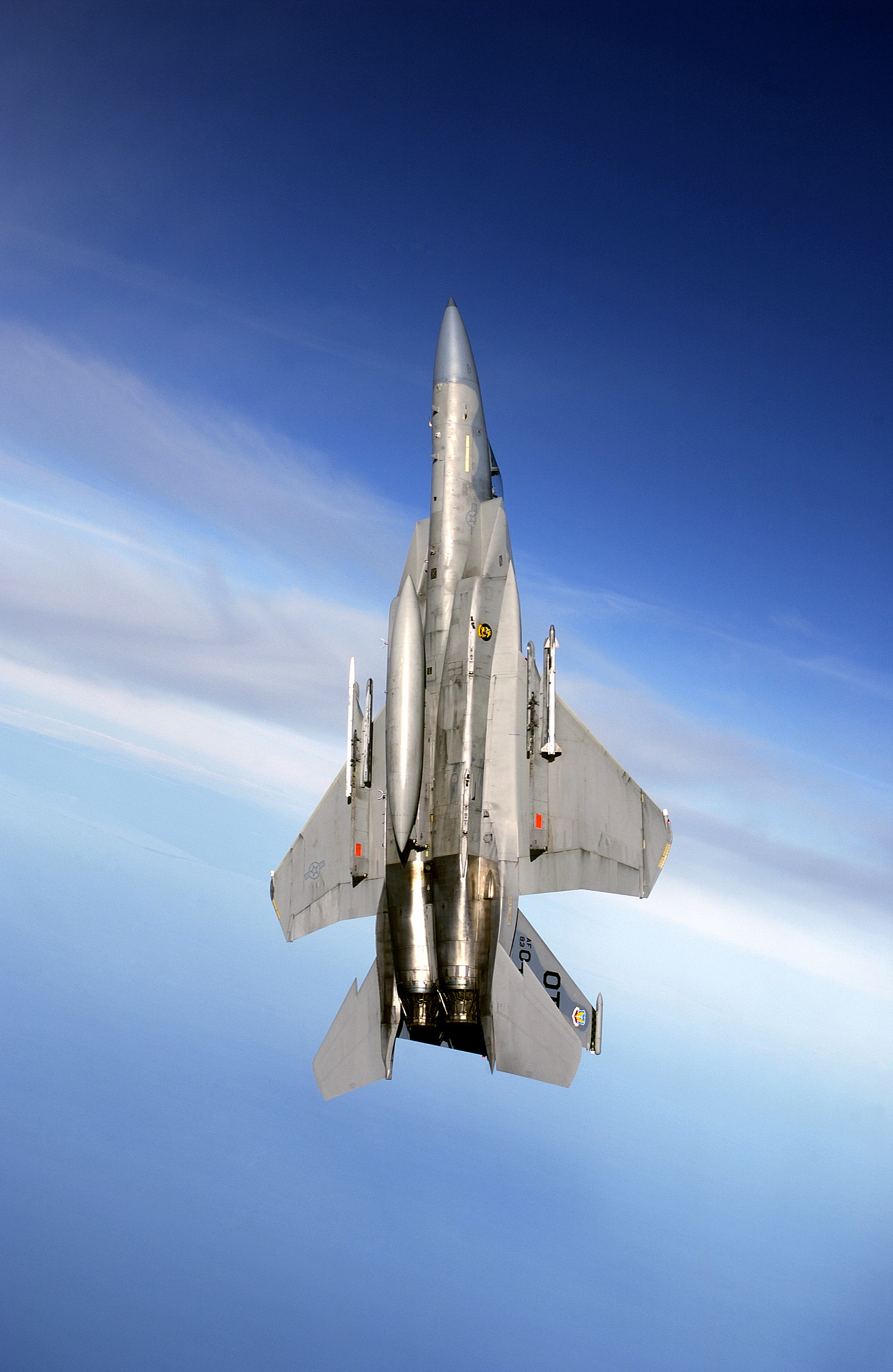 A US Air Force (USAF) F-15C Eagle aircraft assigned to Detachment 1, 28th Test Squadron located at Nellis Air Force Base, Nevada, maneuvers into a vertical climb during a mission to evaluate the AIM-9X Sidewinder short-range, heat-seeking air intercept missile, conducted by the Air Force Operational Test and Evaluation Center, Detachment 2, at Eglin AFB, Florida (FL).